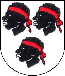 Coat of arms of Cornol, Canton of Jura, Switzerland